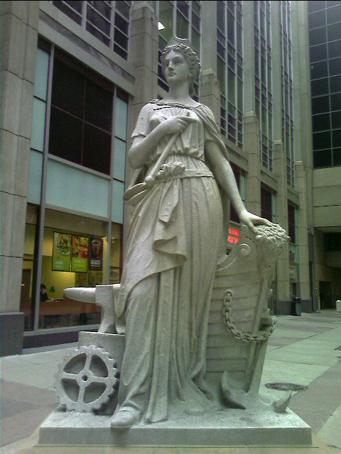 Granite statue of Industry by Alvin Meyer, 1930, outside Chicago Board of Trade building.